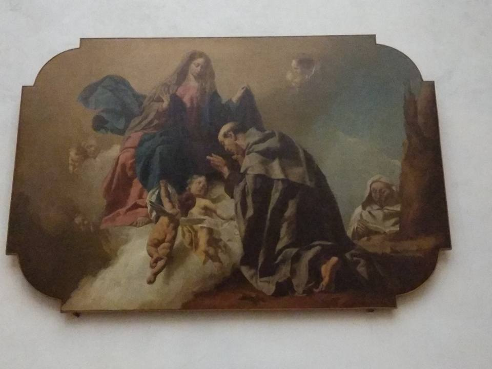 Apparizione della Vergine a san Simone Stock di Giuseppe Angeli